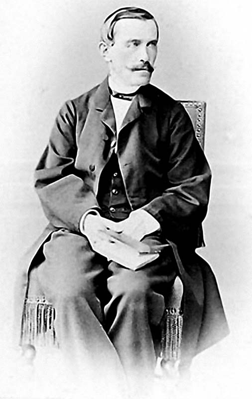 August Anschütz (1826-1874) Jurist from Germany